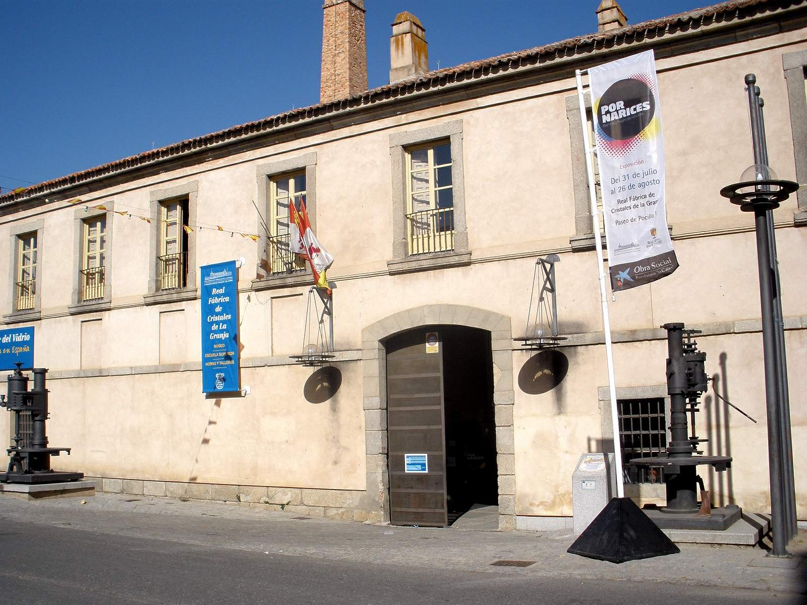 Real Fábrica de Cristales, La Granja de San Ildefonso